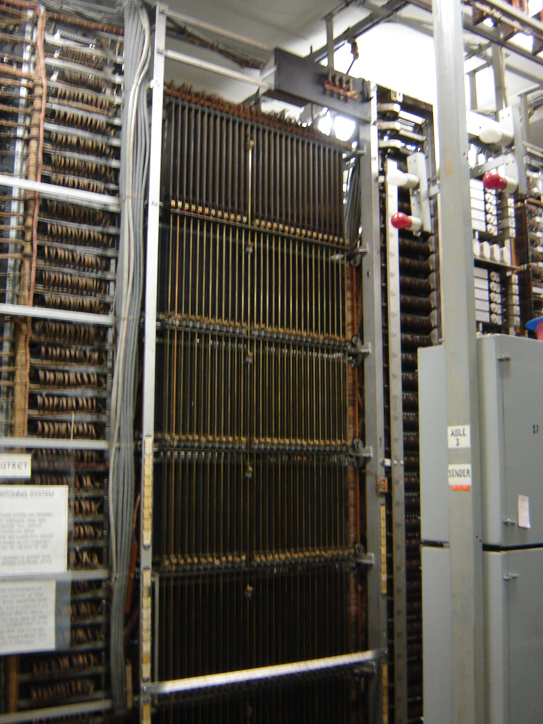 This is a photograph of a district selector frame at the Connections Museum in Seattle.